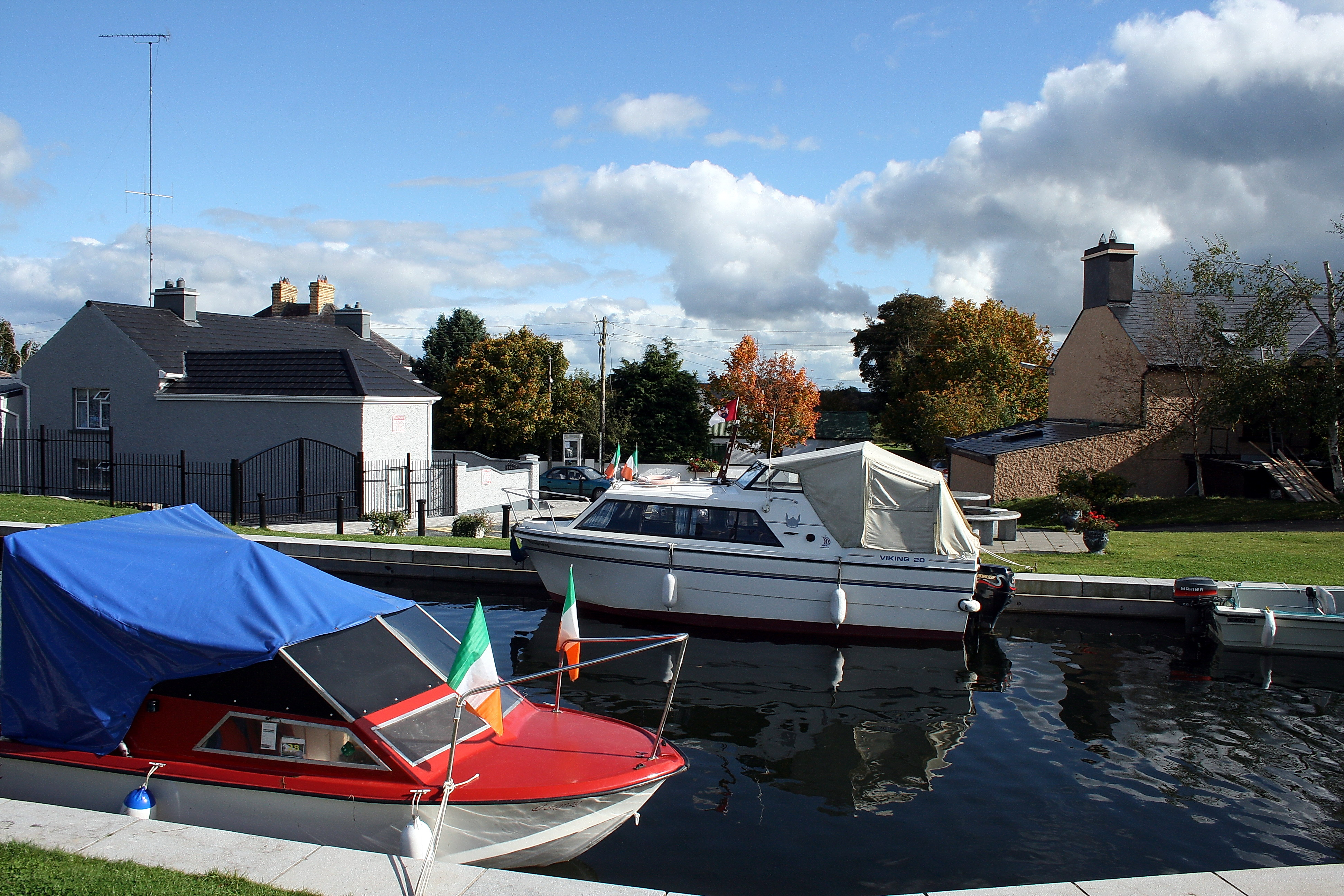 Abbeyshrule, County Longford, near to Abbeyshrule, Ireland. Boats on the Royal Canal.